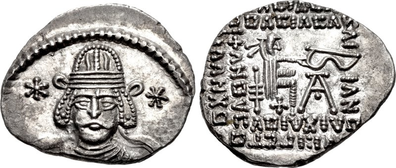 Coin of Meherdates, Parthian contender against Gotarzes II.